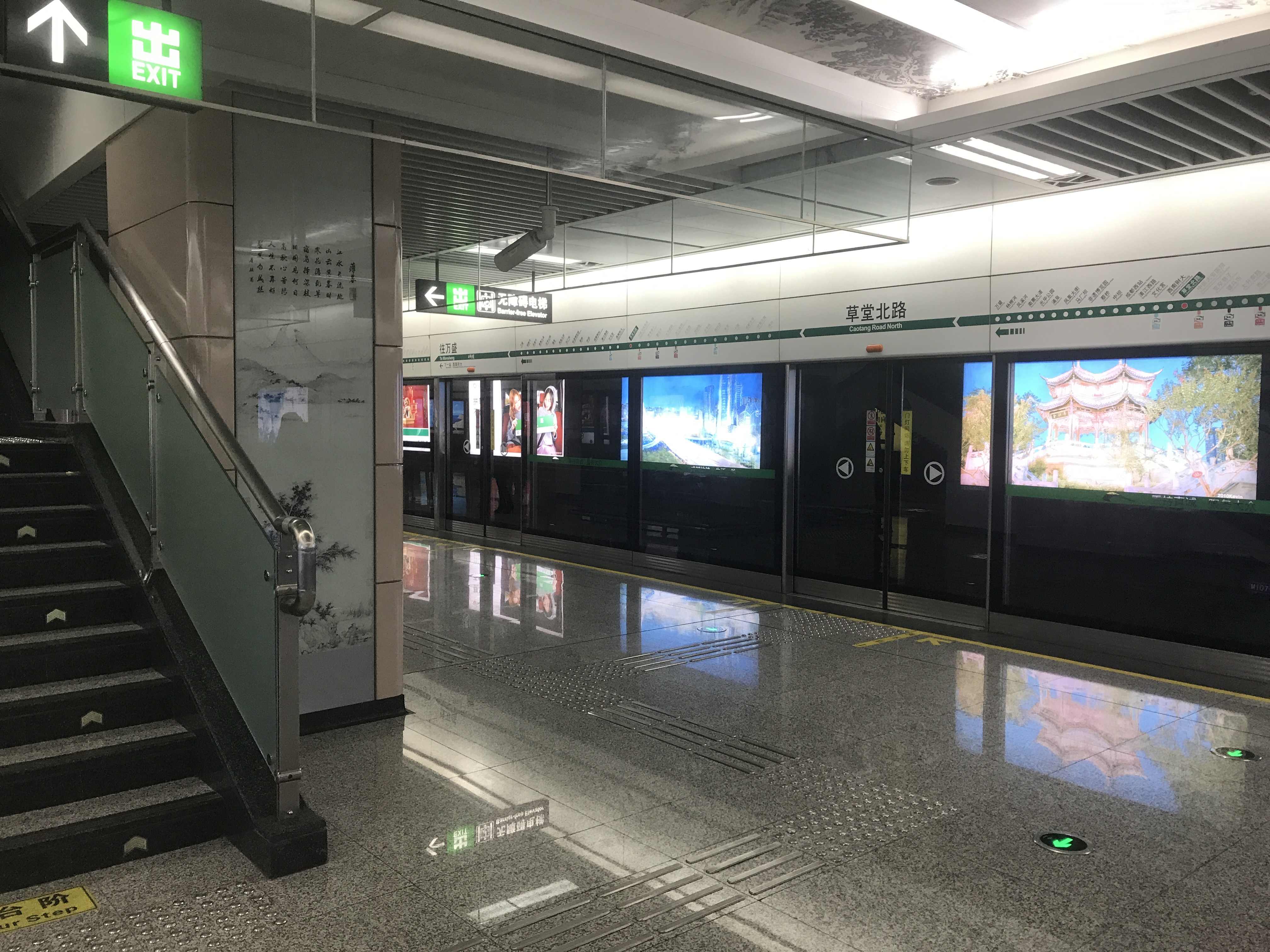 Platform of Caotang Road North Station, Chengdu Metro